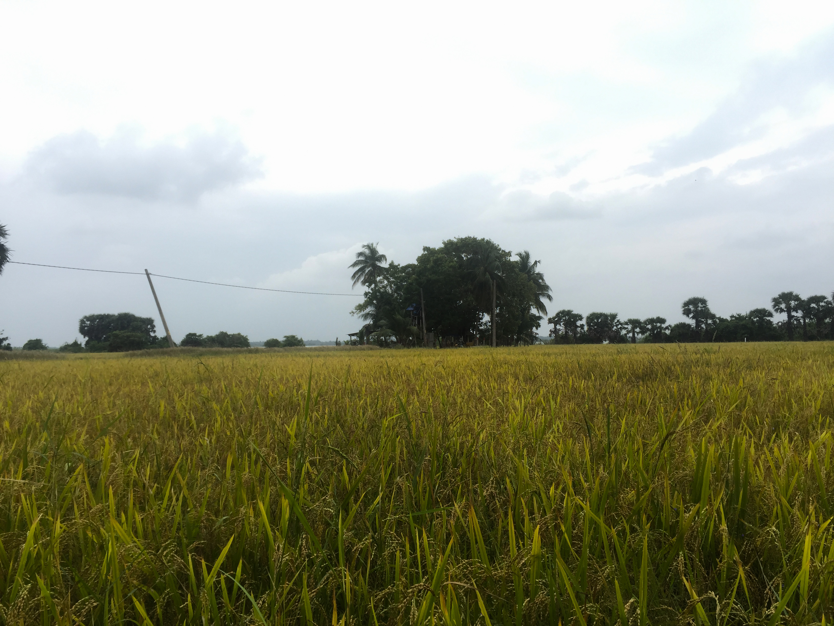 ஆதியில் கண்ணகி வழிபாடும் பின்னர் பிள்ளயார் கோயிலாகவும் காணப்படும் சிராம்பியடி பிள்ளையார்